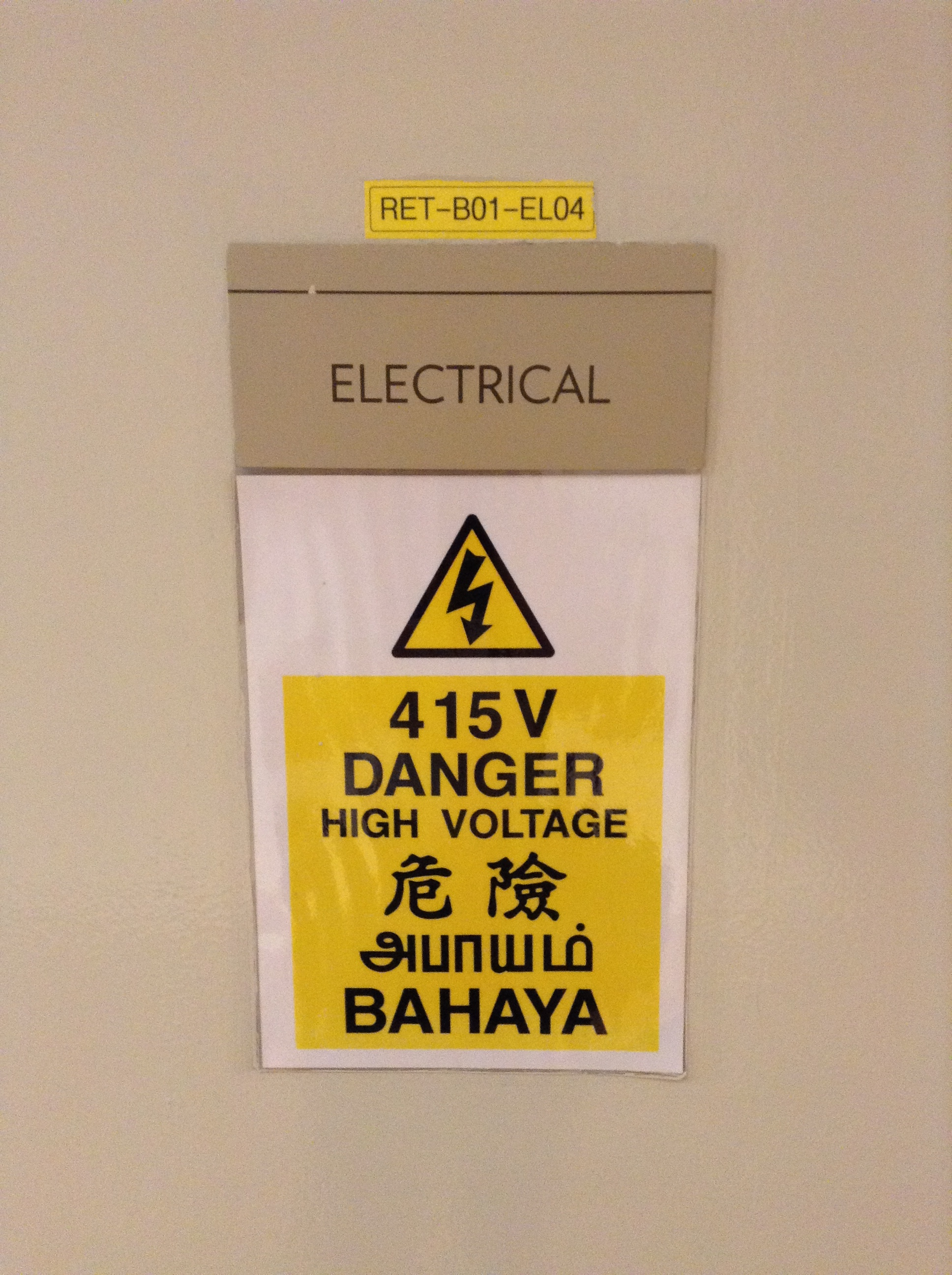 A multi lingual warning sign at Marina Bay Sands, Singapore in English, Chinese, Malay and Tamil.